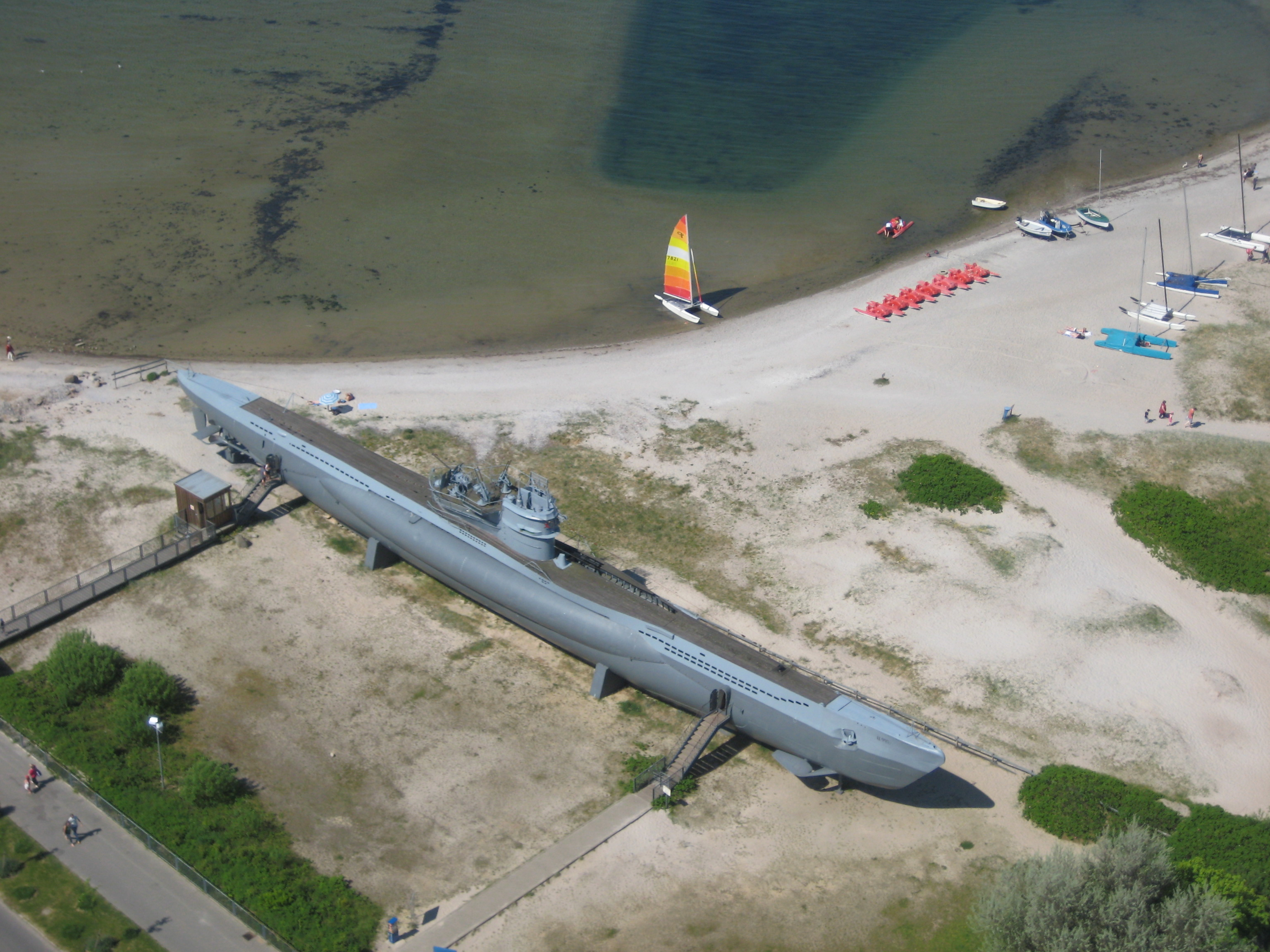 U-boat 995 (museum in Laboe, Germany)